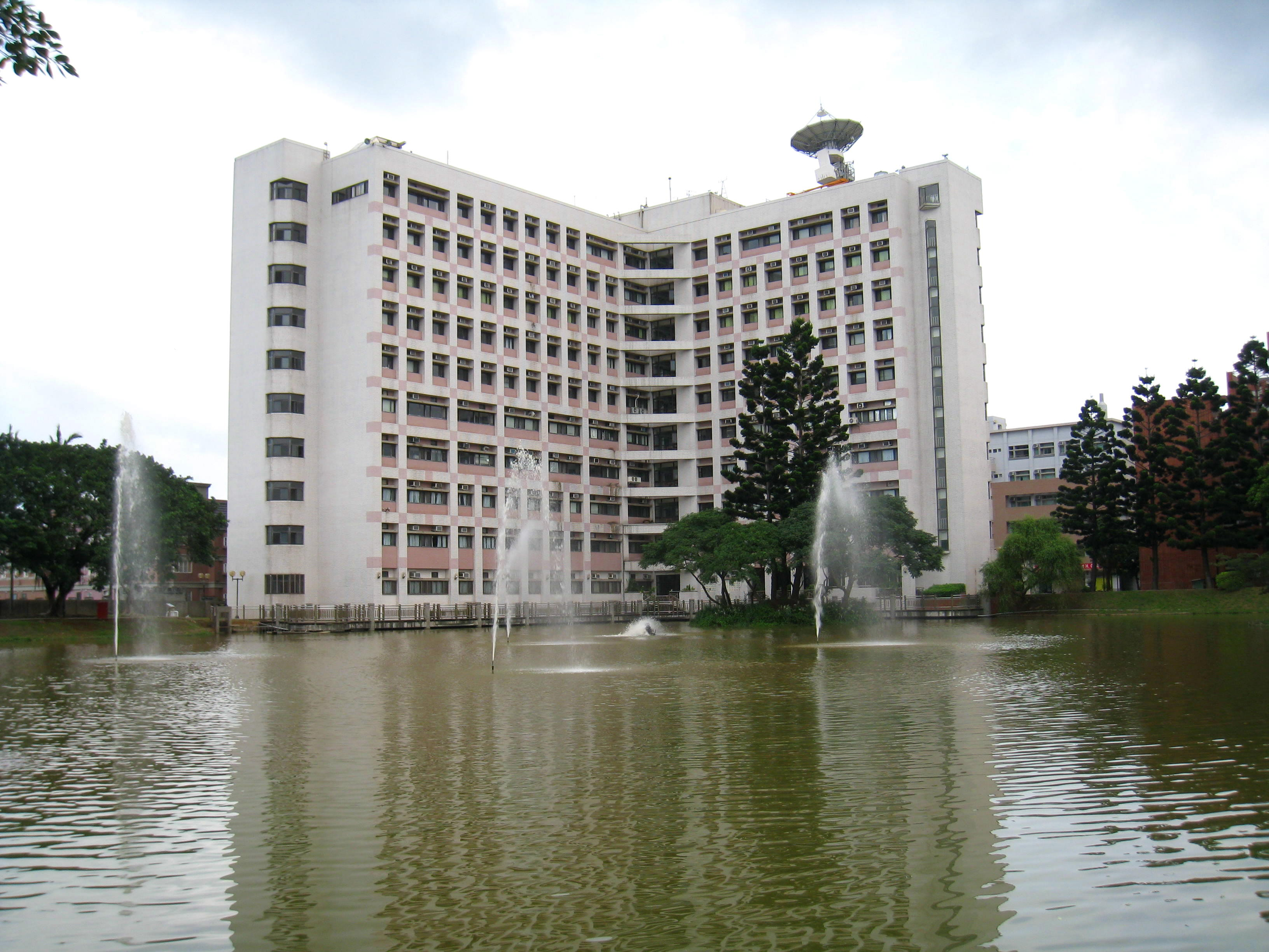 Central University of Jhongli Ⅱ.